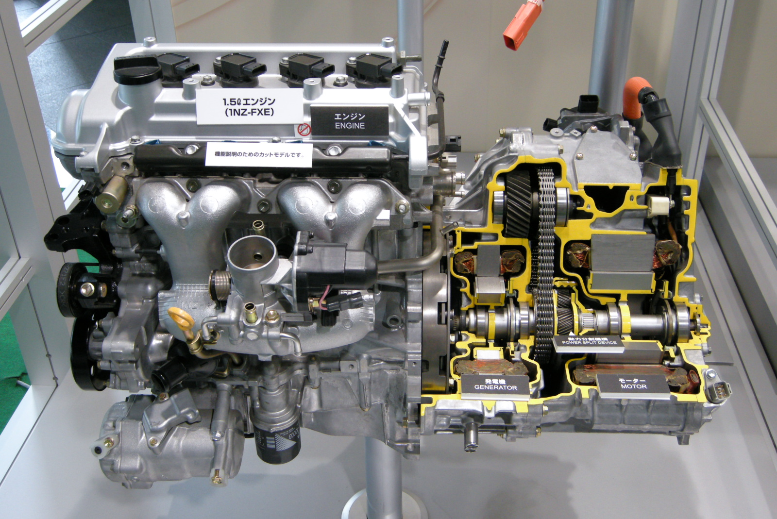 Toyota 1NZ-FXE 1.5L Straight-4 Engine and Electric-Drive Motor